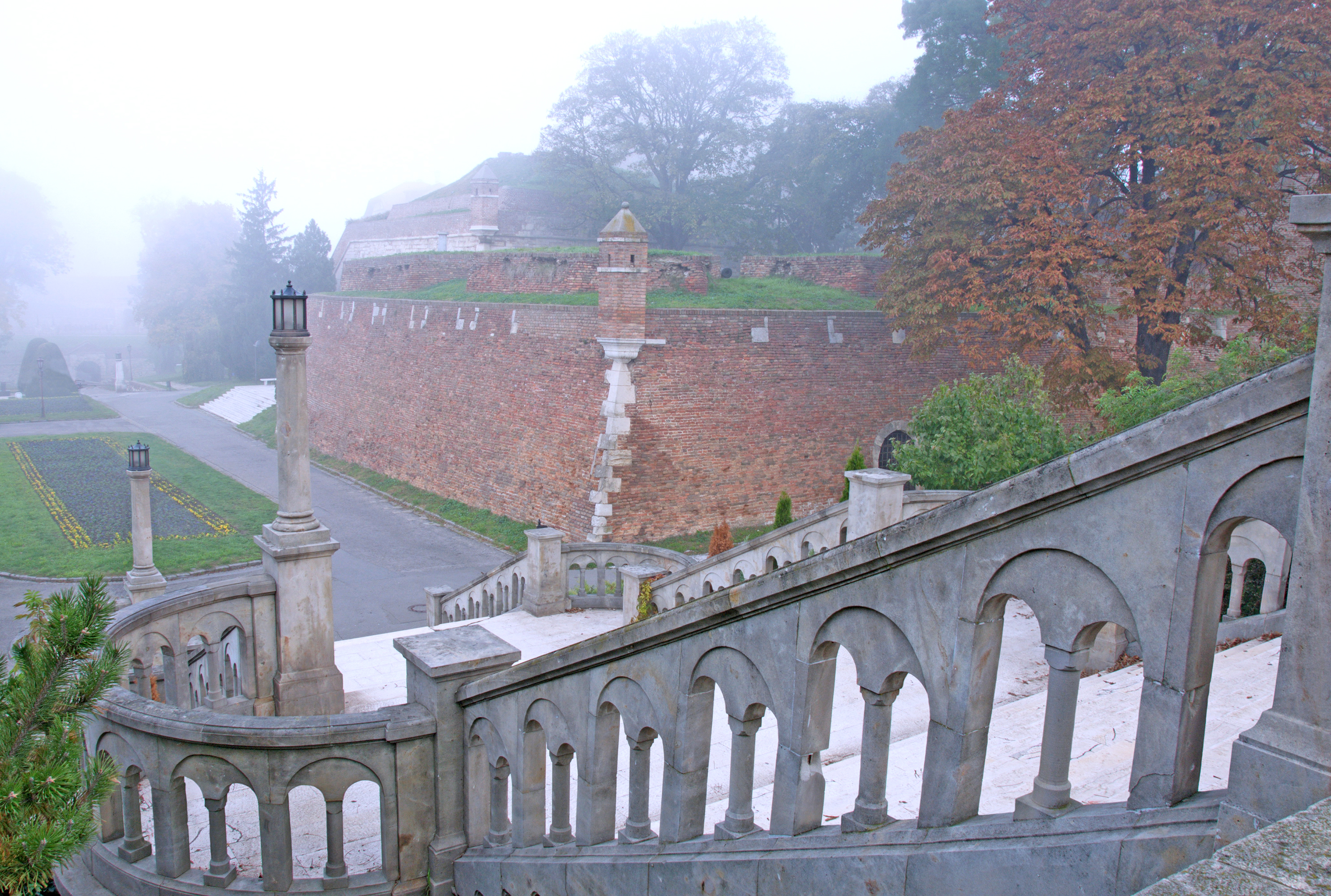 Kalemegdan is the most beautiful and the most famous park in Belgrade, Serbia. It is located above the confluence of the Sava river into the river Danube, inside the the Belgrade Fortress. Belgrade Fortress was built on the site of a Roman, military camp from 6 or 7 years of the new era.